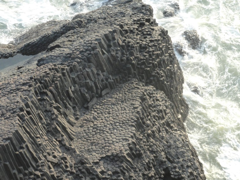 Volcanic rock at Nanding Island